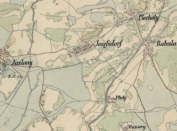 Josefsdorf (Józefów) on an austrian map from around 1855